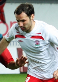 Uzbekistani football midfielder Marat Bikmaev